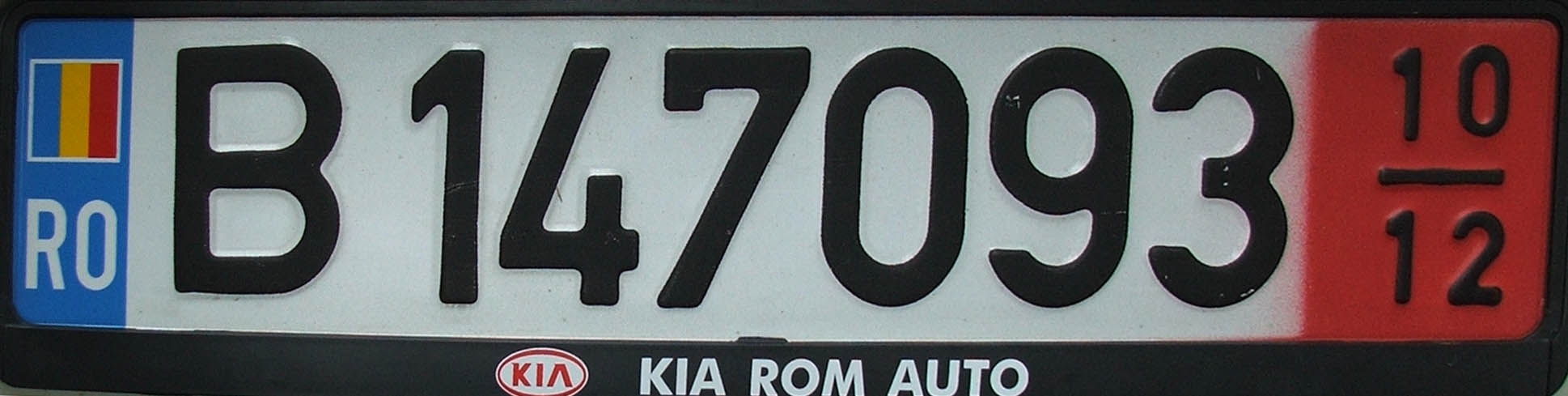 Romanian pre-EU licence plate as seen in 2007.